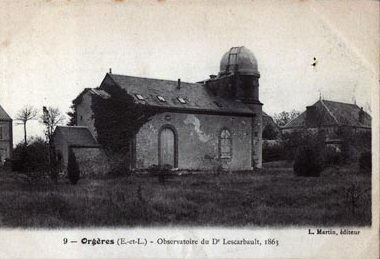 The observatory of Edmond Modeste Lescarbault in Orgères-en-Beauce, Eure-et-Loir (France).